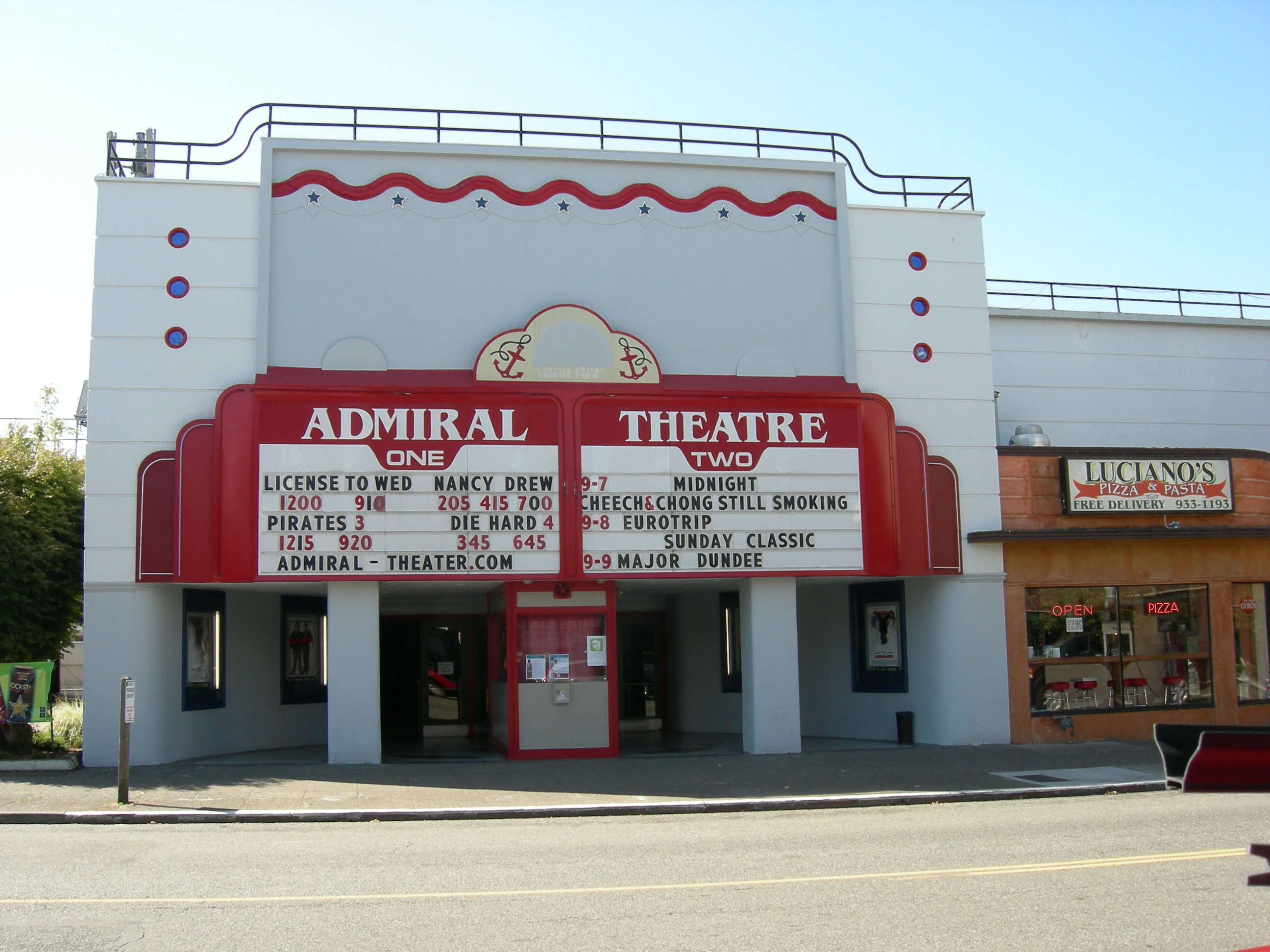 Seattle's nautically themed Admiral Theater was designed by architects B. Marcus Priteca and A.B Heinsbergen. It is now a second-run cinema. A 1973 remodel into a "twin" cinema removed the marquee and a mast and "crow's nest" and changed the old balcony into new projection booths. However, the lobby decoration is generally intact, as is the overall structure. Like several other early Seattle cinemas (including the one that now survives as the Columbia City Theater), the auditorium ran parallel to the street rather than at a right angle, so that seen from the street the building is "wide" rather than "deep"; several stores are nestled between the auditorium and the street. The building is listed on the National Register of Historic Places with ID #89002098. References: Cinema Treasures' page on the Admiral Theater, National Register listings.